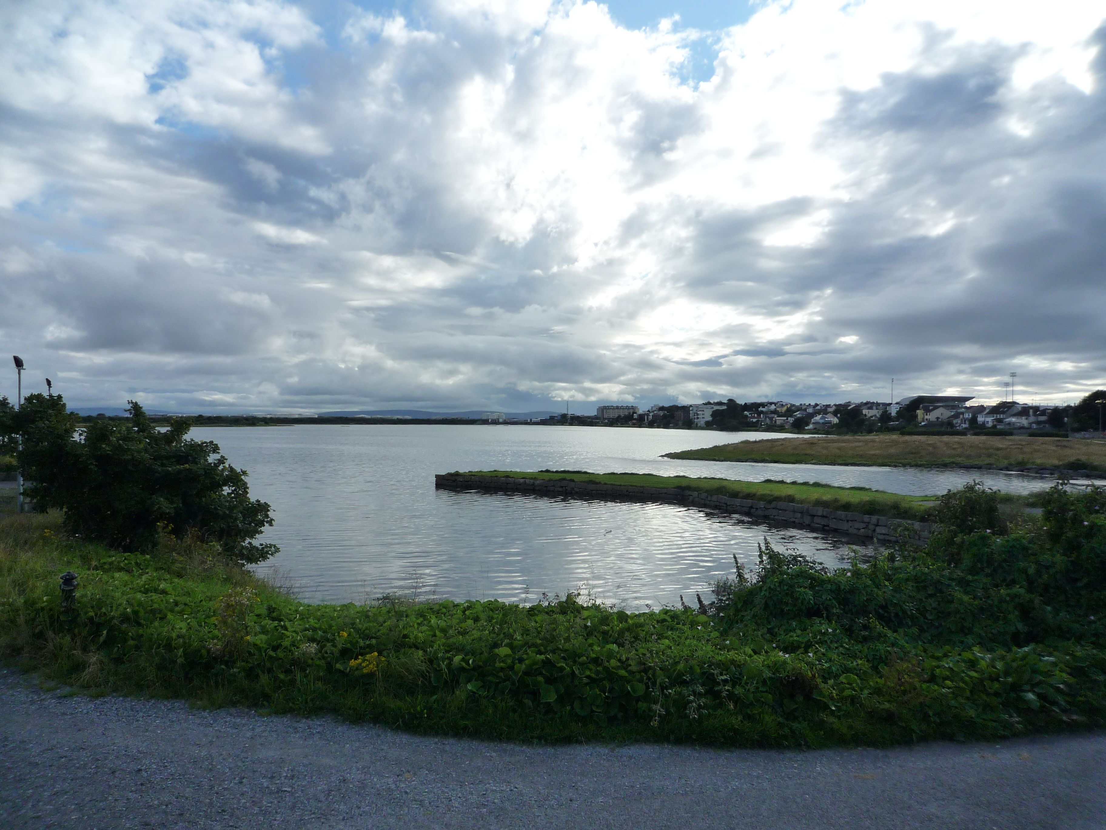 20120817 20 Ireland - Co. Galway - Galway - Lough Atalia